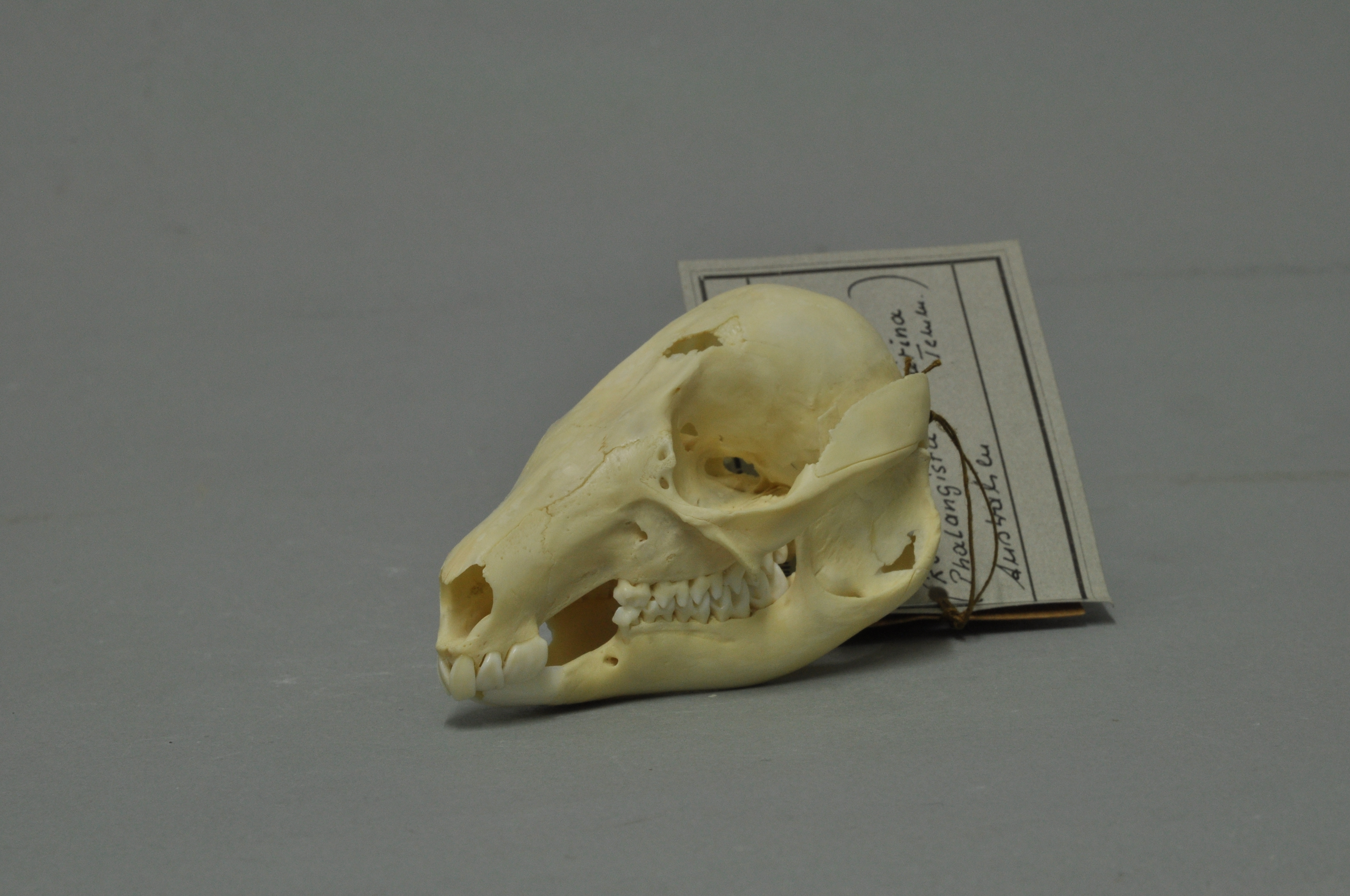 Red-necked pademelonThylogale thetis , skull, Coll. Museum Wiesbaden